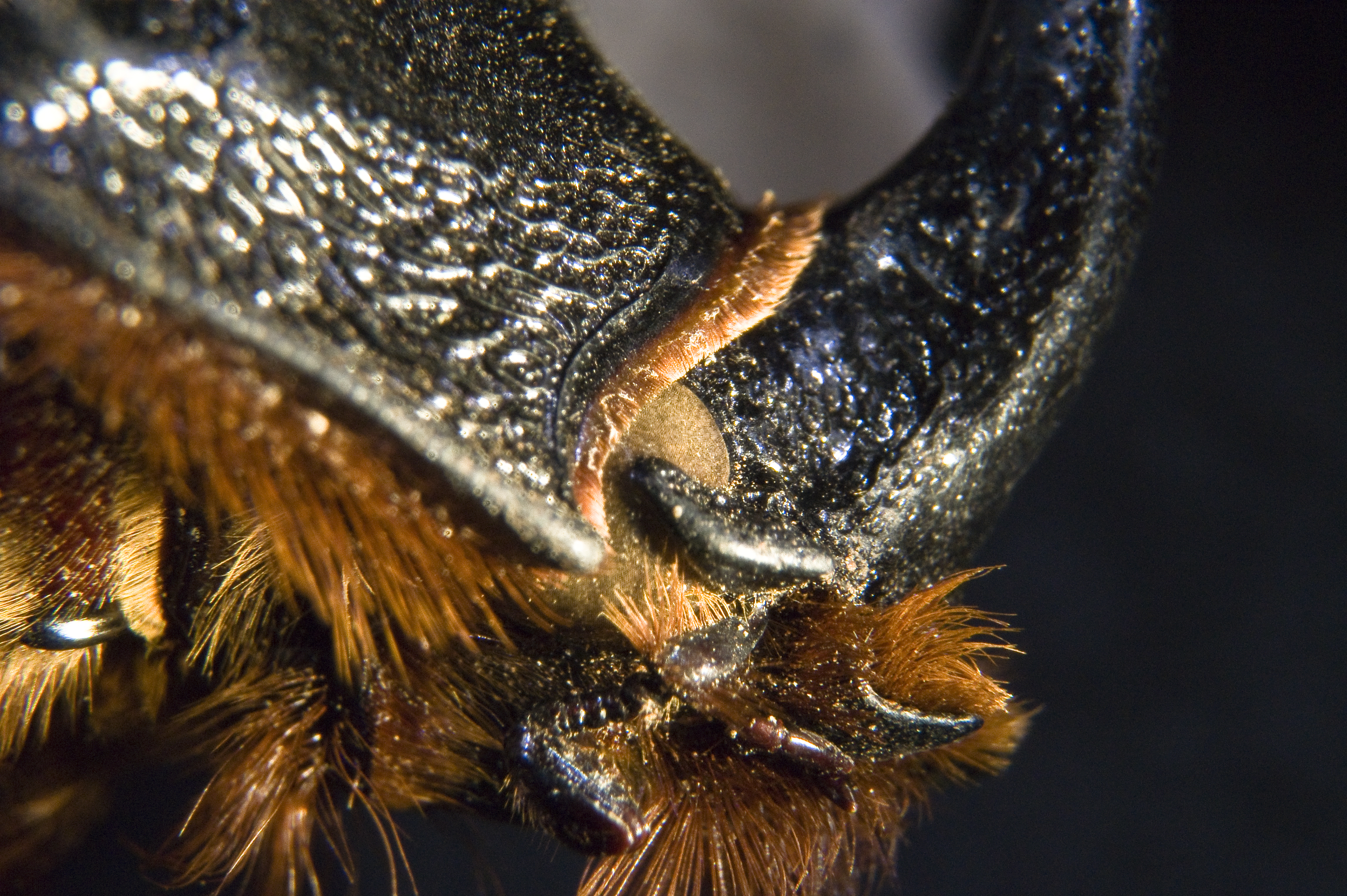 Oryctes nasicornis (Right eye)